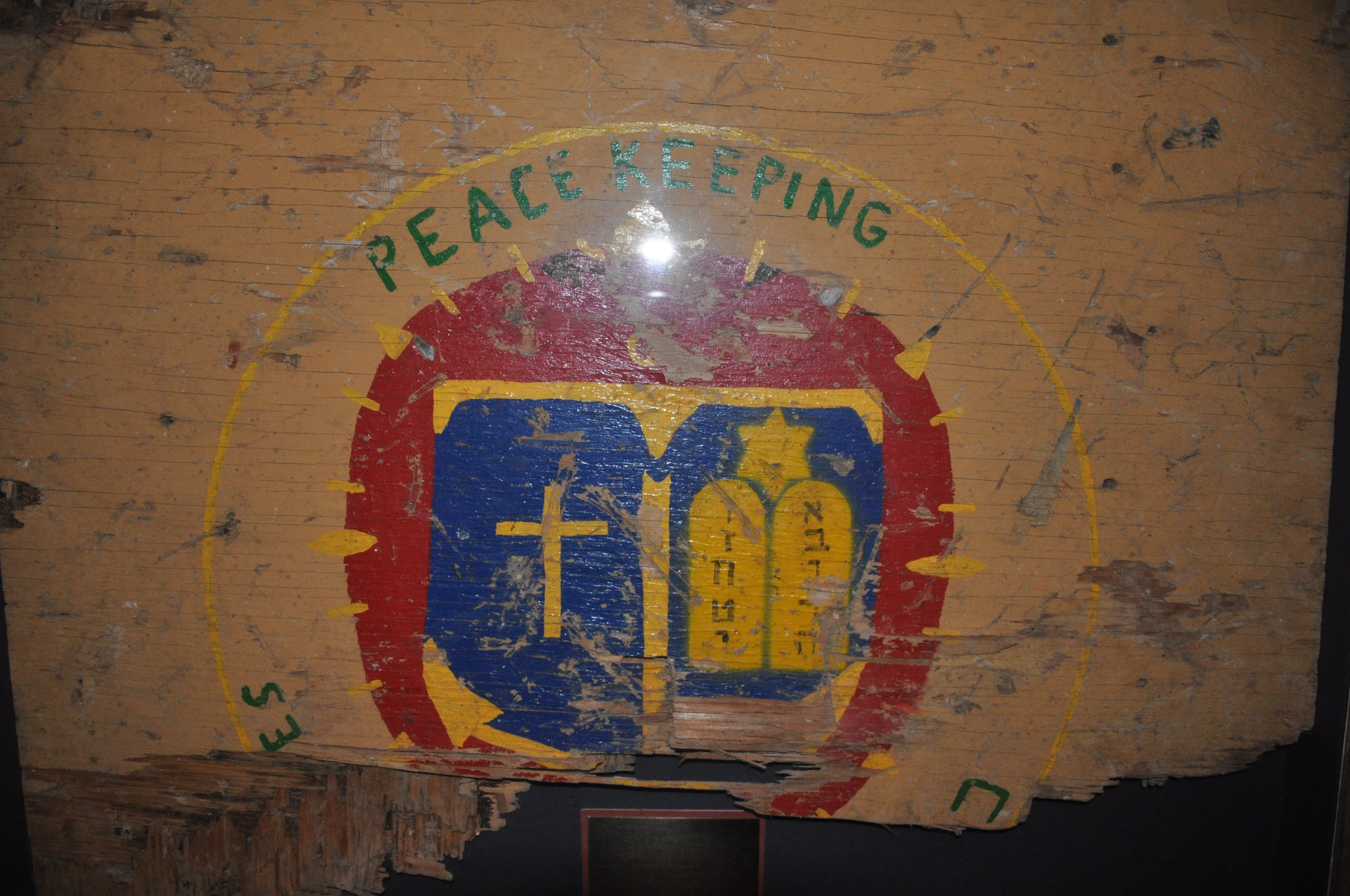 The sign for the Peacekeeping Chapel, Beirut, Lebanon, during the time that U.S. forces were part of the International Peacekeeping Force. On October 23, 1983, when a suicide bomber drove a truck laden with explosions into the Marine Barracks, this portion of the sign survived. It is part of the historical collection at the U.S. Naval Chaplaincy School and Center, on the campus of the Armed Forces Chaplaincy Center (AFCC), Ft. Jackson, Columbia, SC. In the article, "With the Marines in Beirut," published in the Fall 1984 issue of "The Jewish Spectator," Rabbi Arnold Resnicoff, one of the Navy chaplains present during the attack, wrote: "Amidst the rubble, we found the plywood board which we had made for our "Peace-keeping Chapel." The Chaplain Corps Seal had been hand-painted, with the words "Peace-keeping" above it, and "Chapel" beneath. Now "Peace-keeping" was legible, but the bottom of the plaque was destroyed, with only a few burned and splintered pieces of wood remaining. The idea of peace - above; the reality of war - below."[1] Official photo from the U.S. Naval Chaplaincy School and Center.